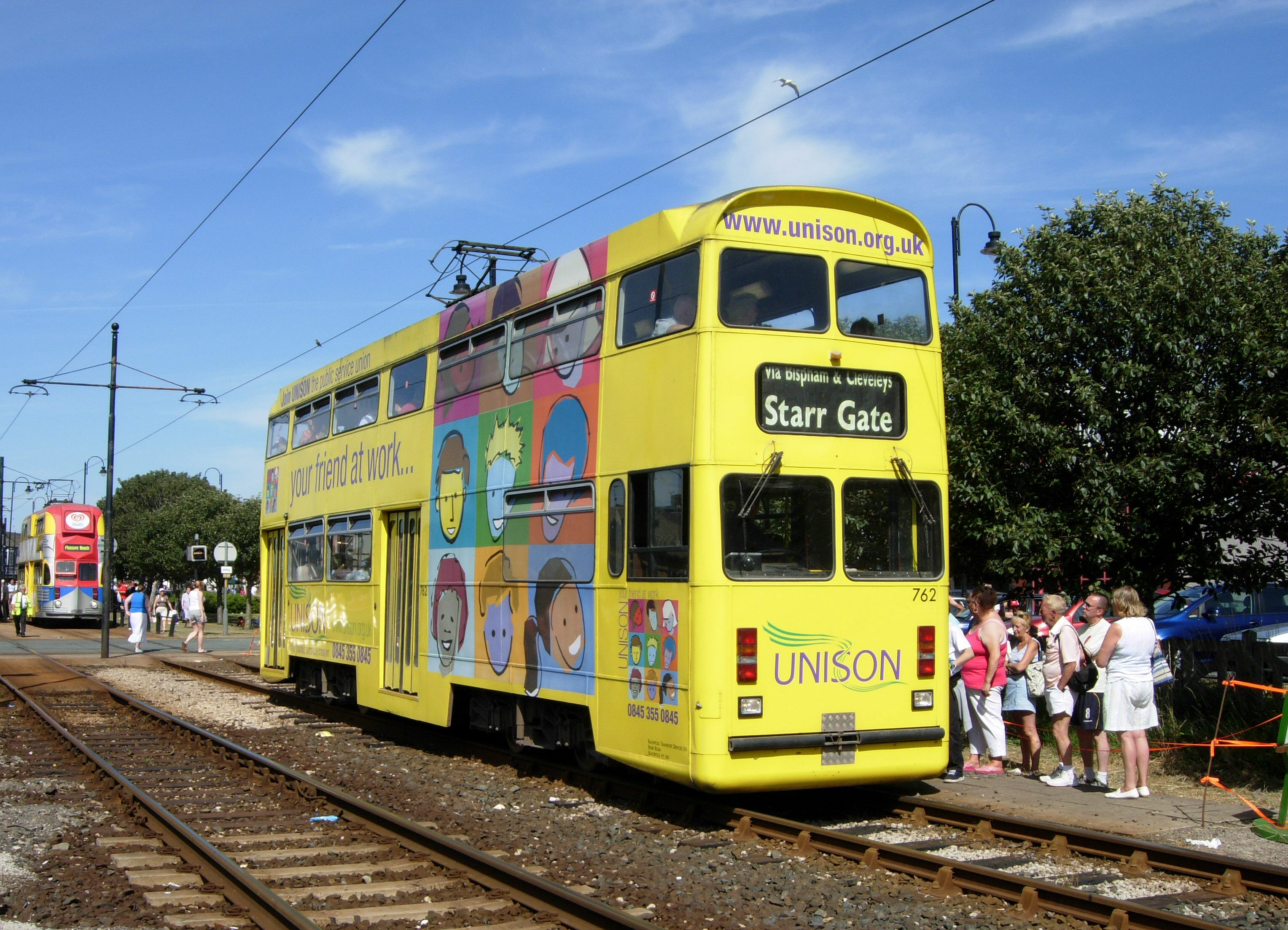 Jubilee Car~English Electric~1935 at Fleetwood, Ash Street on 16th July 2006. Blackpool Transport No.762.